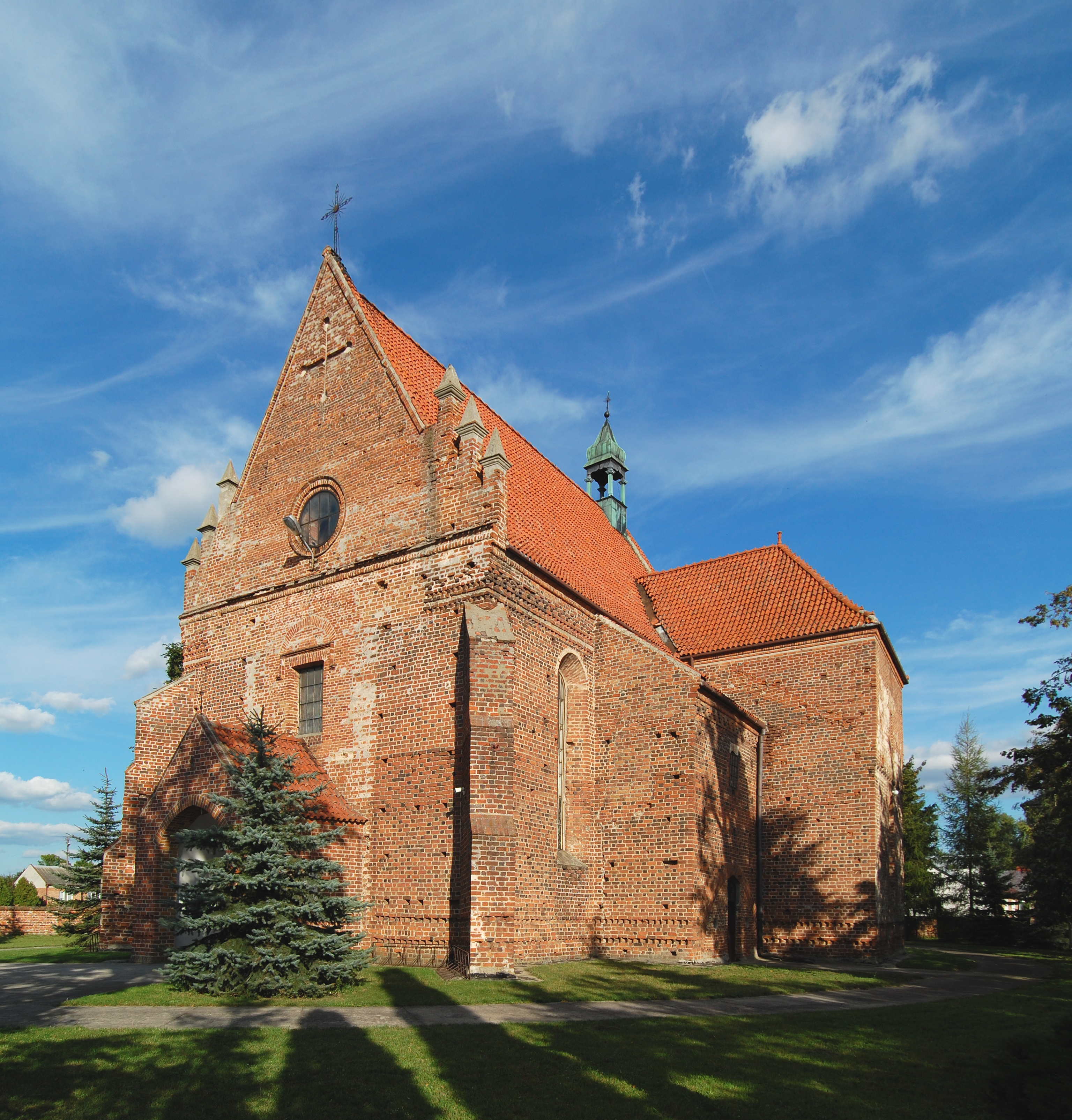 St Martin's church, Stężyca, Lublin Voivodeship, Poland built in 1434.